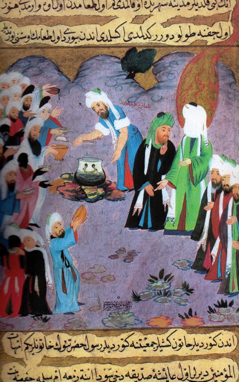 Siyer-I Nebi or Life of the Prophet